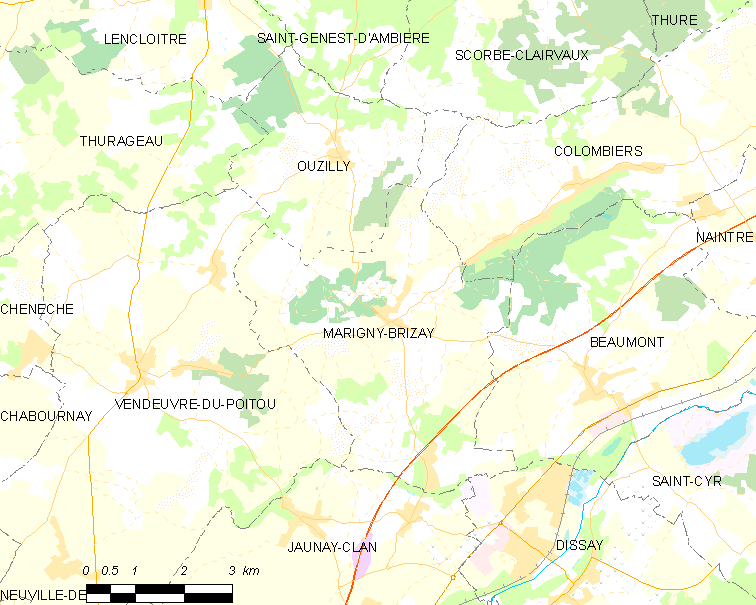 Map of French municipality Marigny-Brizay